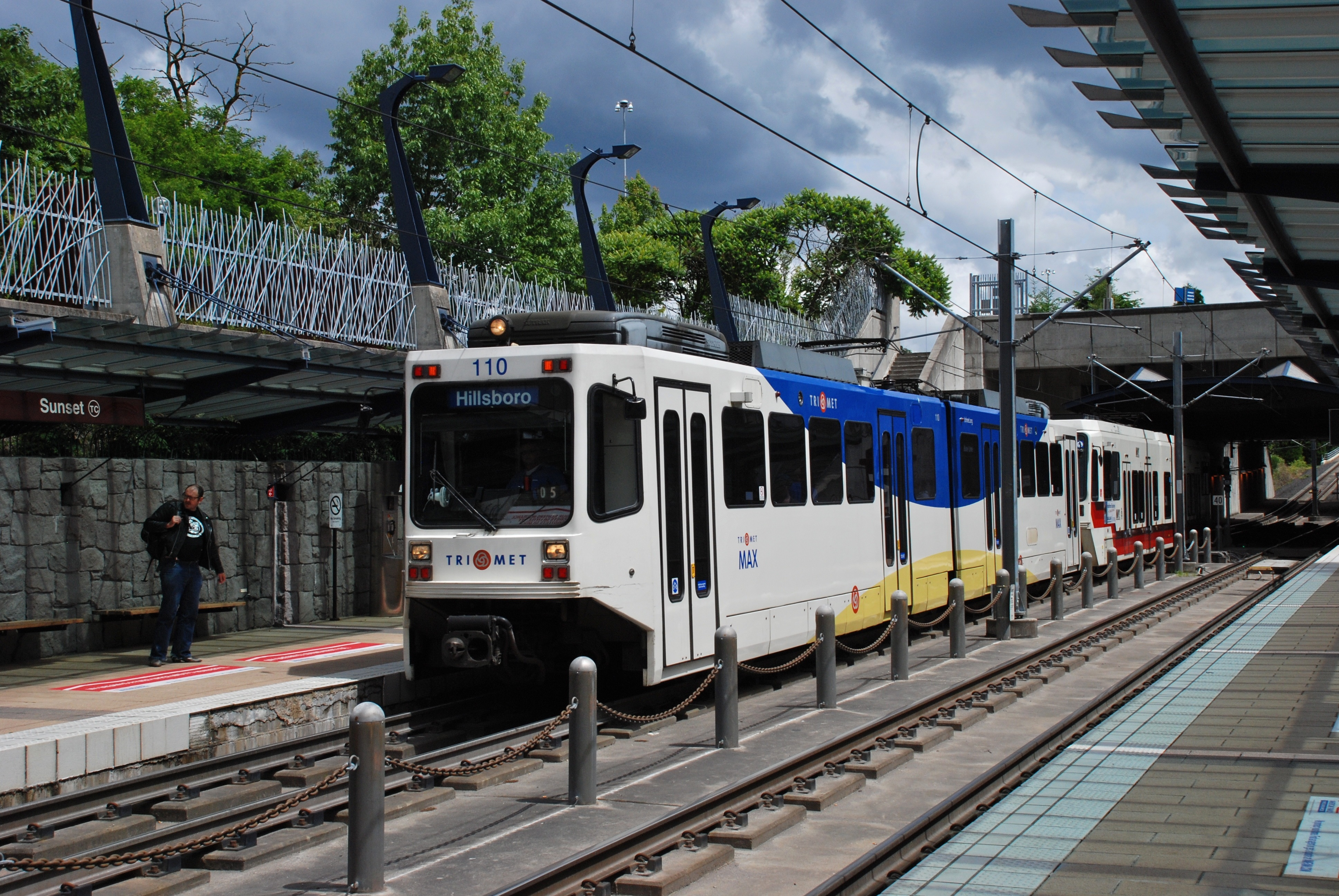 Portland, Oregon: This MAX light-rail train arriving westbound at the Sunset Transit Center is a "mixed consist", a train made up of two different types of light rail vehicles (LRVs). Car 110 (TriMet "Type 1") is a high-floor Bombardier car (built in the mid-1980s), while the second car is a low-floor Siemens car (of TriMet "Type 2", built in 1996–2000). In this instance, the older LRV has the newer paint scheme, and the second car is wearing TriMet's 1980–2002 paint scheme. Car 110 has two pantographs, the second of which (lowered in this photo) is only for cutting through ice on the wires.